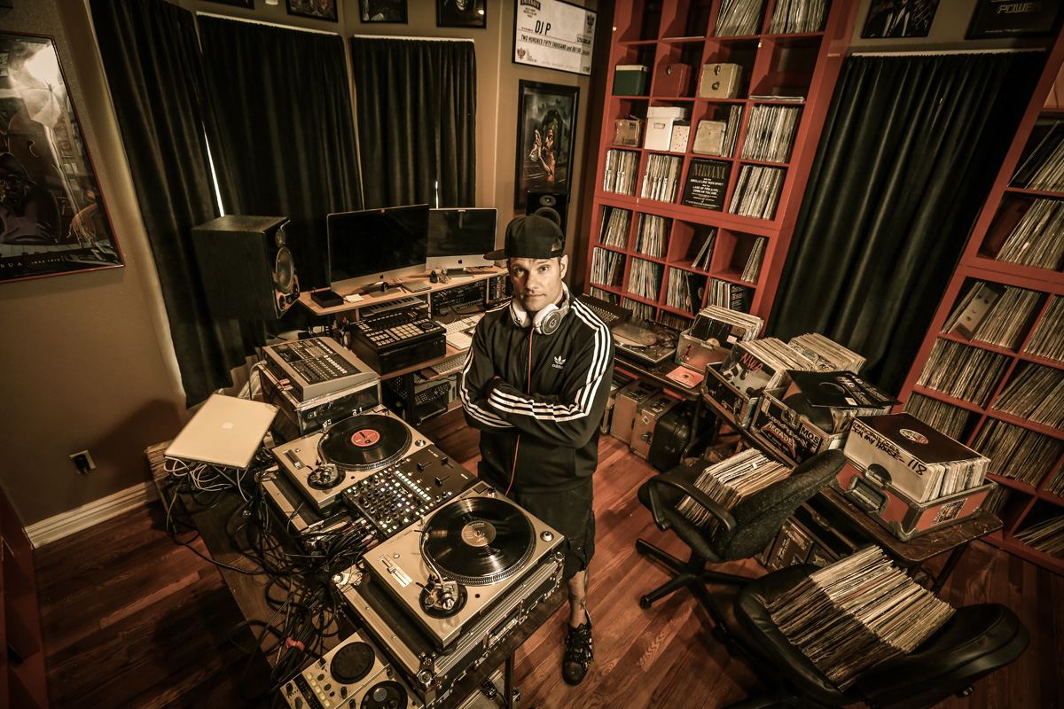 D.J.P in his home studio in Springfield Missouri.